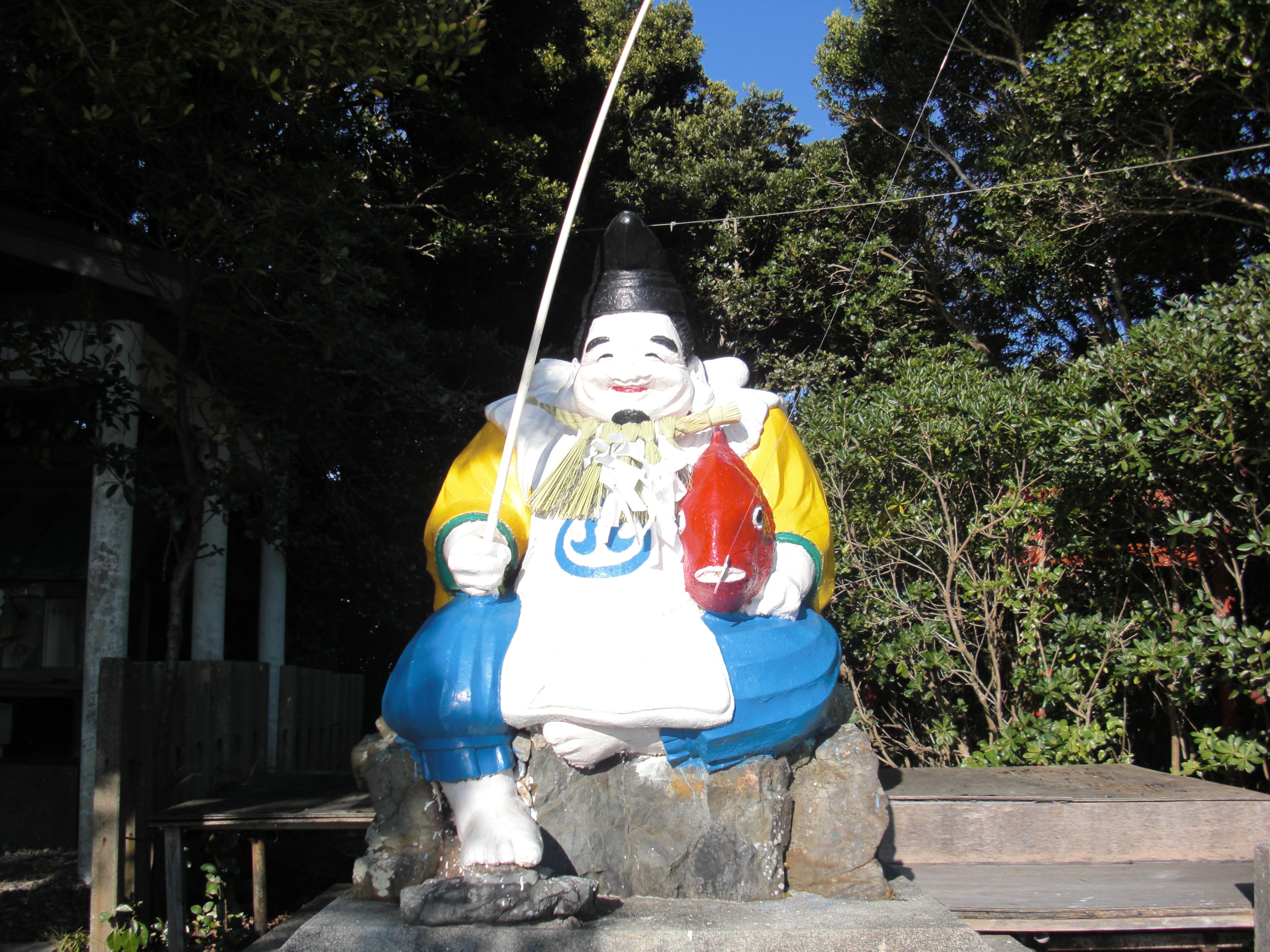 This is a monument of Ebisu-sama in Hamajima ,Shima,Mie,Japan.